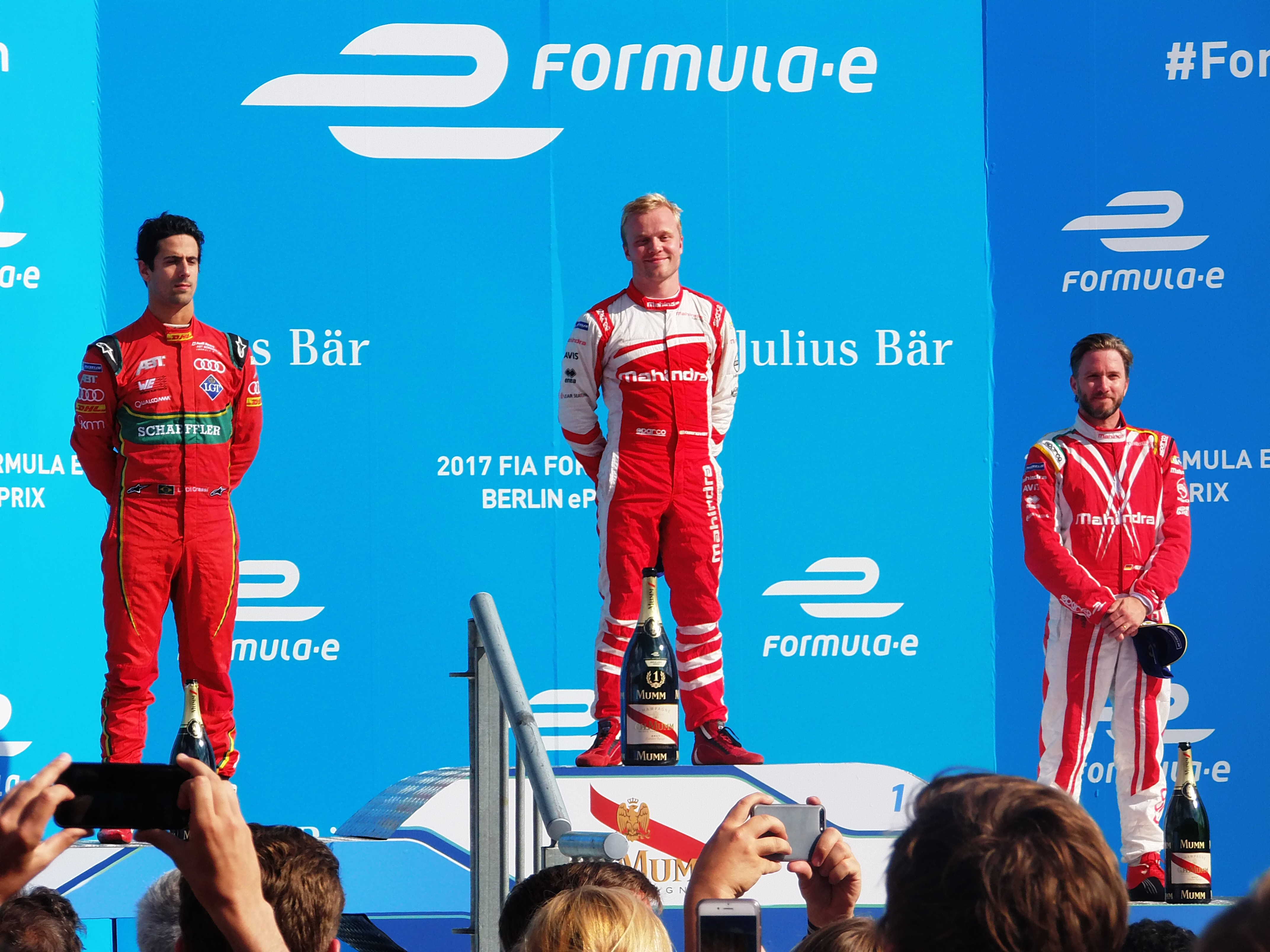 Lucas di Grassi, Felix Rosenqvist and Nick Heidfeld (left to right) at the podium ceremony after the first race of the 2017 Berlin ePrix